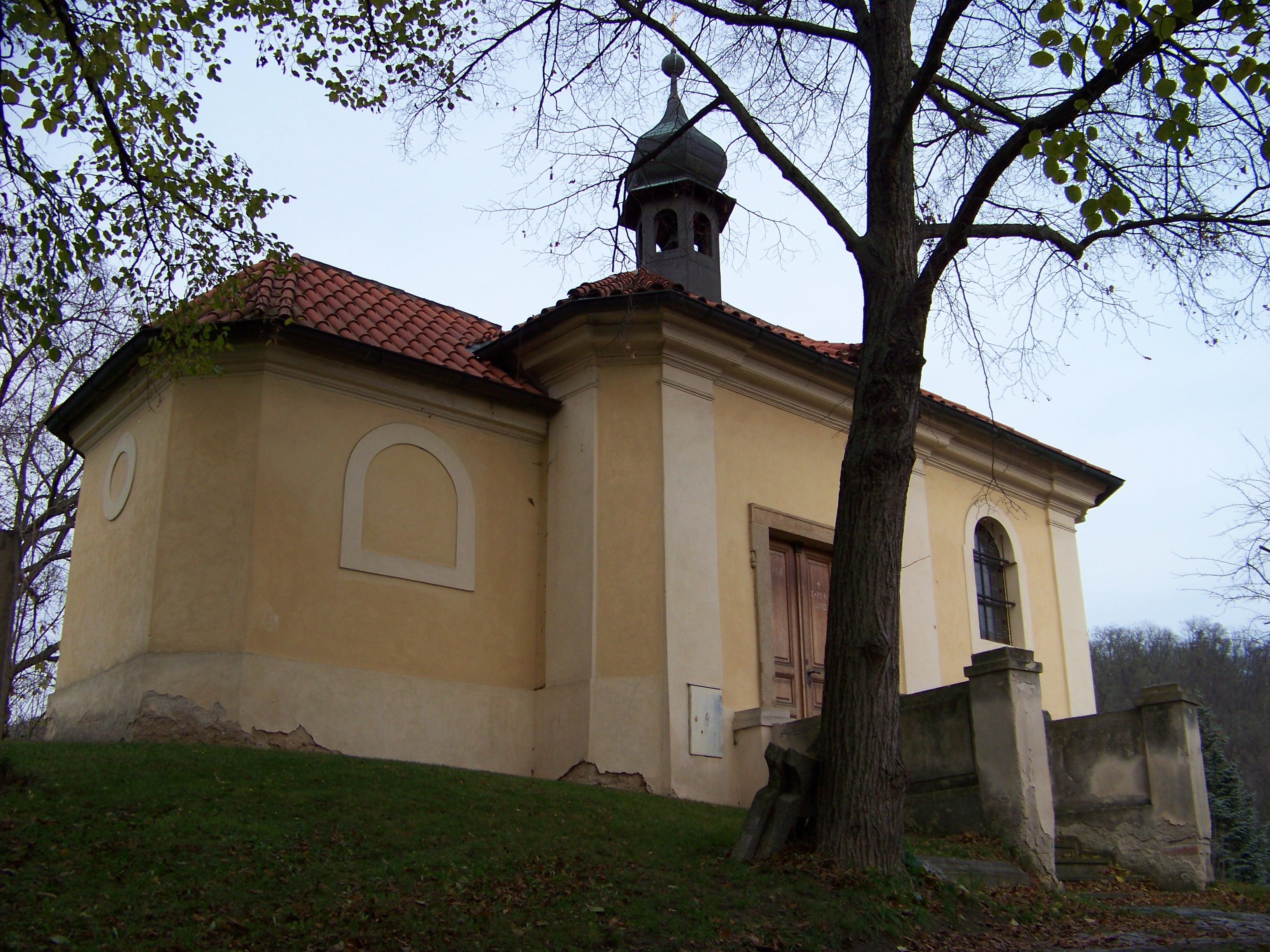 Prague-Dejvice, the Czech Republic. Jenerálka, K vršíčku street, chapel of Saint John of Nepomuk.